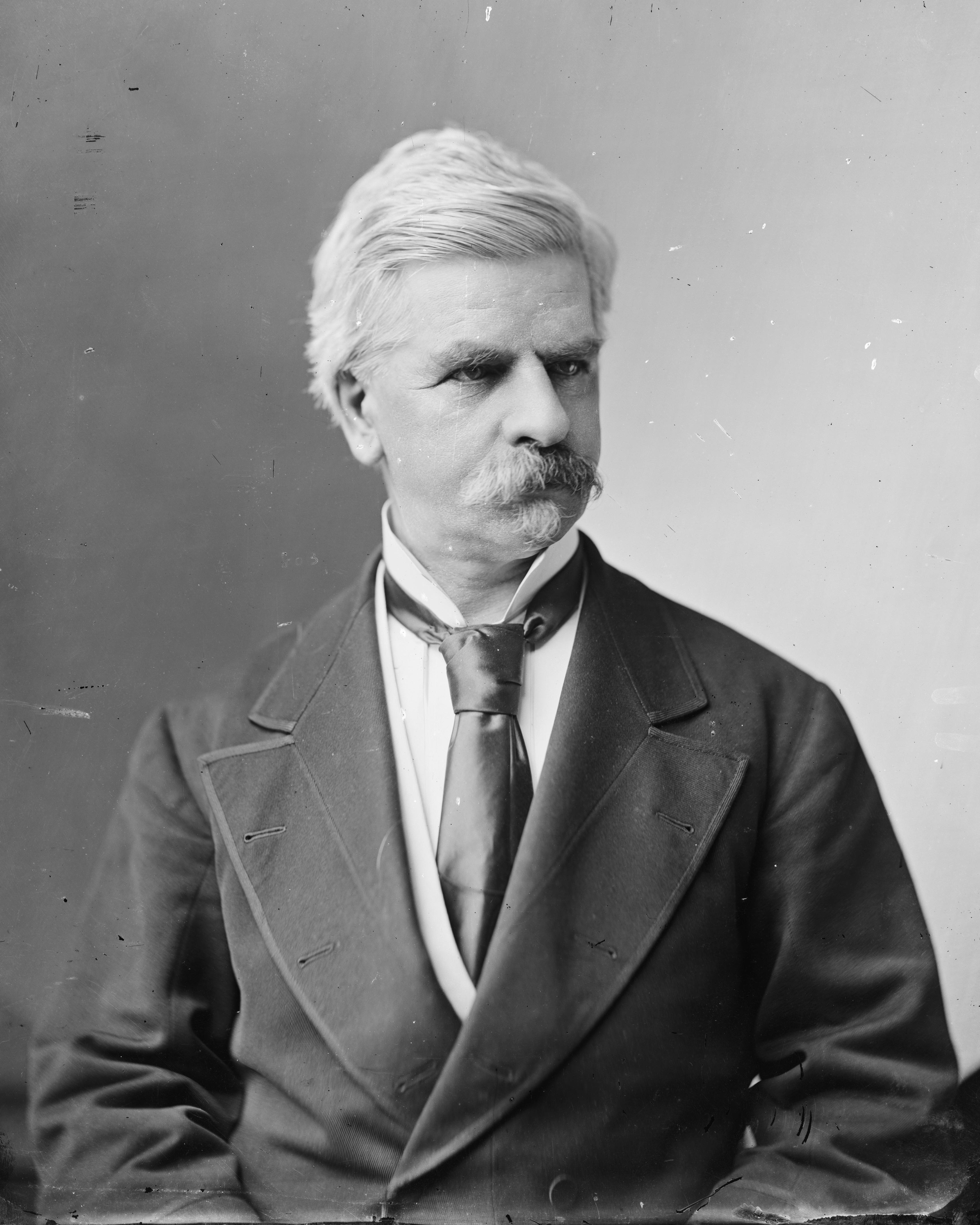 Nathaniel Prentice Banks. Library of Congress description: "Banks Hon. Nathaniel Prentice of Mass (general in Union Army)"